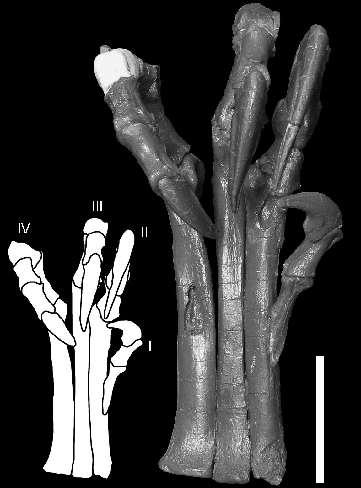 Ventral view of Deinonychus foot (MOR 747) in flexion. D-I is not reversed, but is rotated slightly so that the claw faces laterally into the ‘fist’, as observed in articulated specimens of Velociraptor [22]. Ginglymoid articulation facets of MT-II and III restrict the motion of D-II and III to a parallel dorso-ventral plane, but the distal ball joint of MT-IV allows D-IV to take a variable position, spreading more laterally, or allowing it to reach over the metatarsus, opposing D-I. Not shown at maximum flexion. Scale = 5 cm.